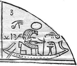 Detail of Figure No. 3 from Facsimile No. 2 from the Times and Seasons